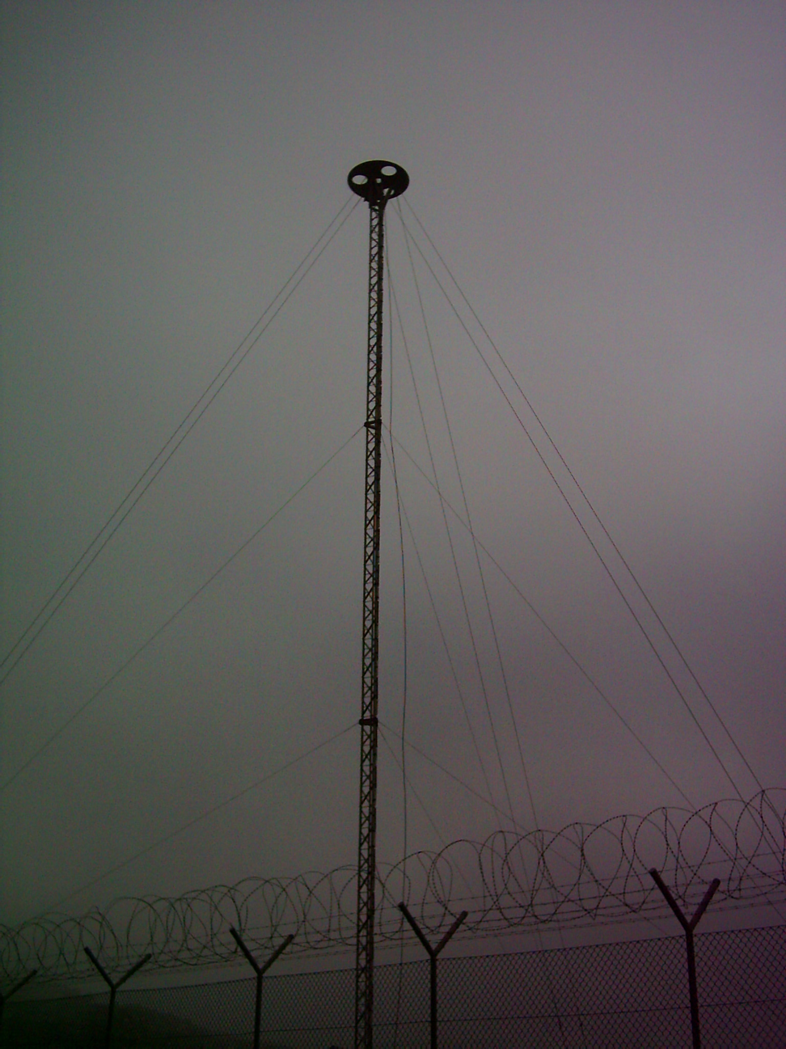 Antenna 4 (through the wire) in former Echelon intelligence gathering station at Silvermine, Cape Peninsula